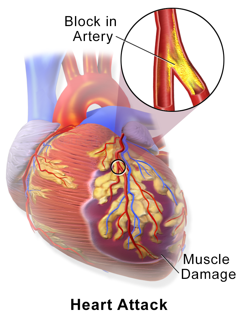 Myocardial Infarction or Heart Attack. See a full animation of this medical topic.